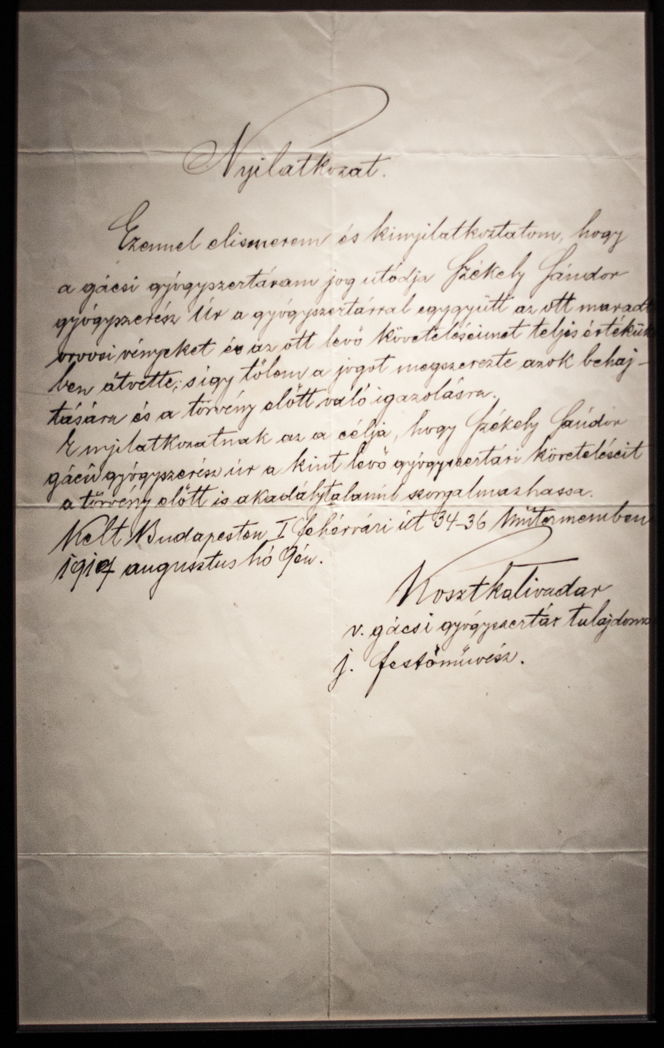 Handwriting of Csontváry